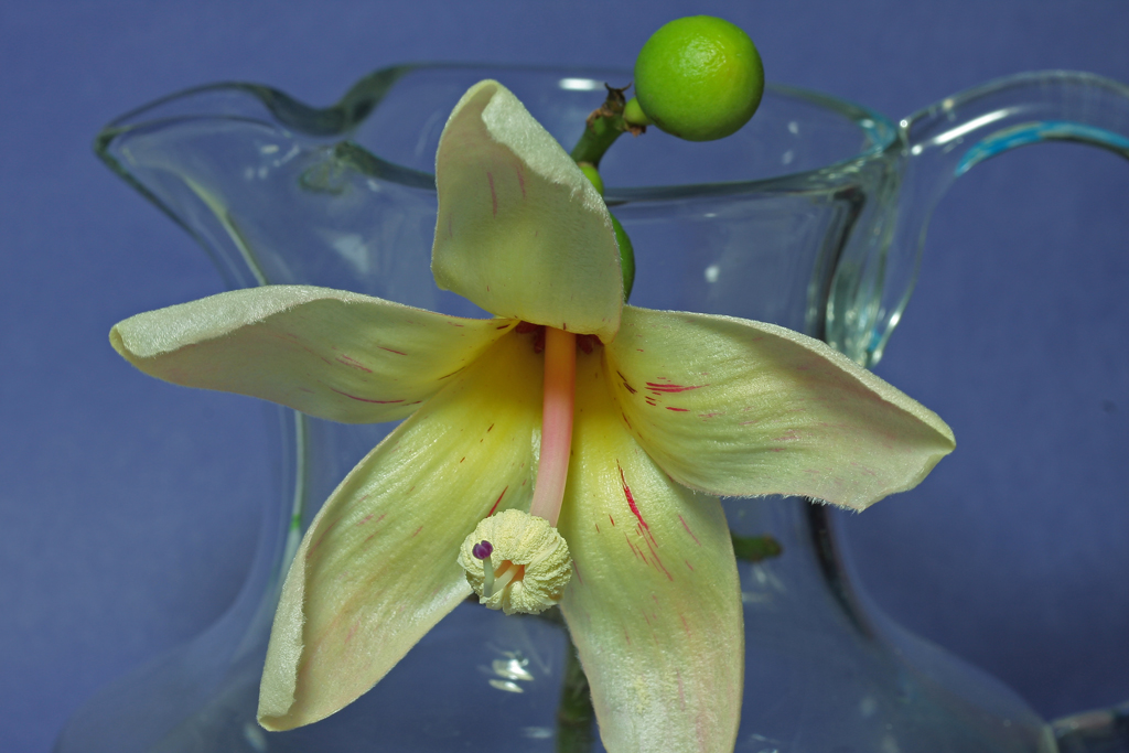 Cebia speciosa X Cebia insignis bud just open a couple of minutes earlier in a sugar/aspirin solution at room temperature, in Pasadena, California. The tree that supplied the bud is a seedling located in the Arboretum-parking at The Huntington.